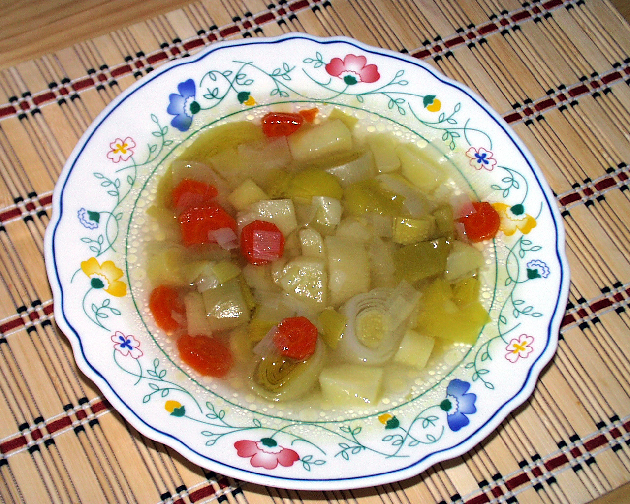 Porrusalda Taken by myself --Ardo Beltz 16:51, 9 Apr 2005 (UTC)